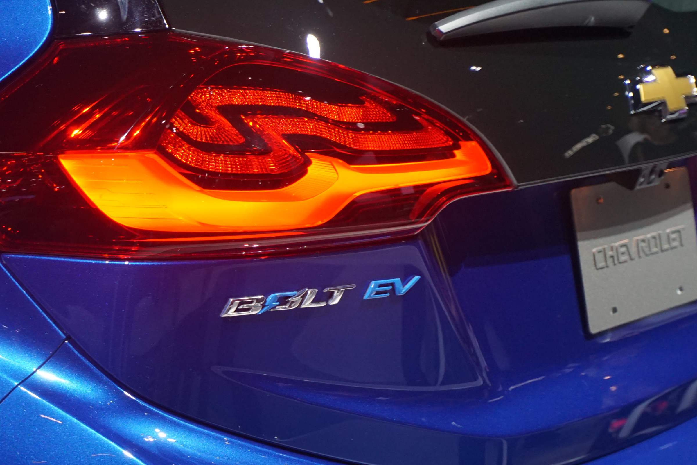 2017 Chevrolet Bolt EV rear badge. Salão Internacional do Automóvel 2016 São Paulo, Brazil